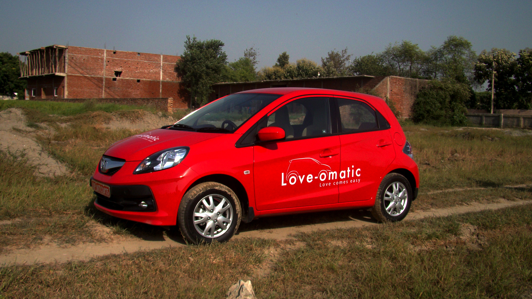 This image is shows the full profile of the red Honda Brio Loveomatic